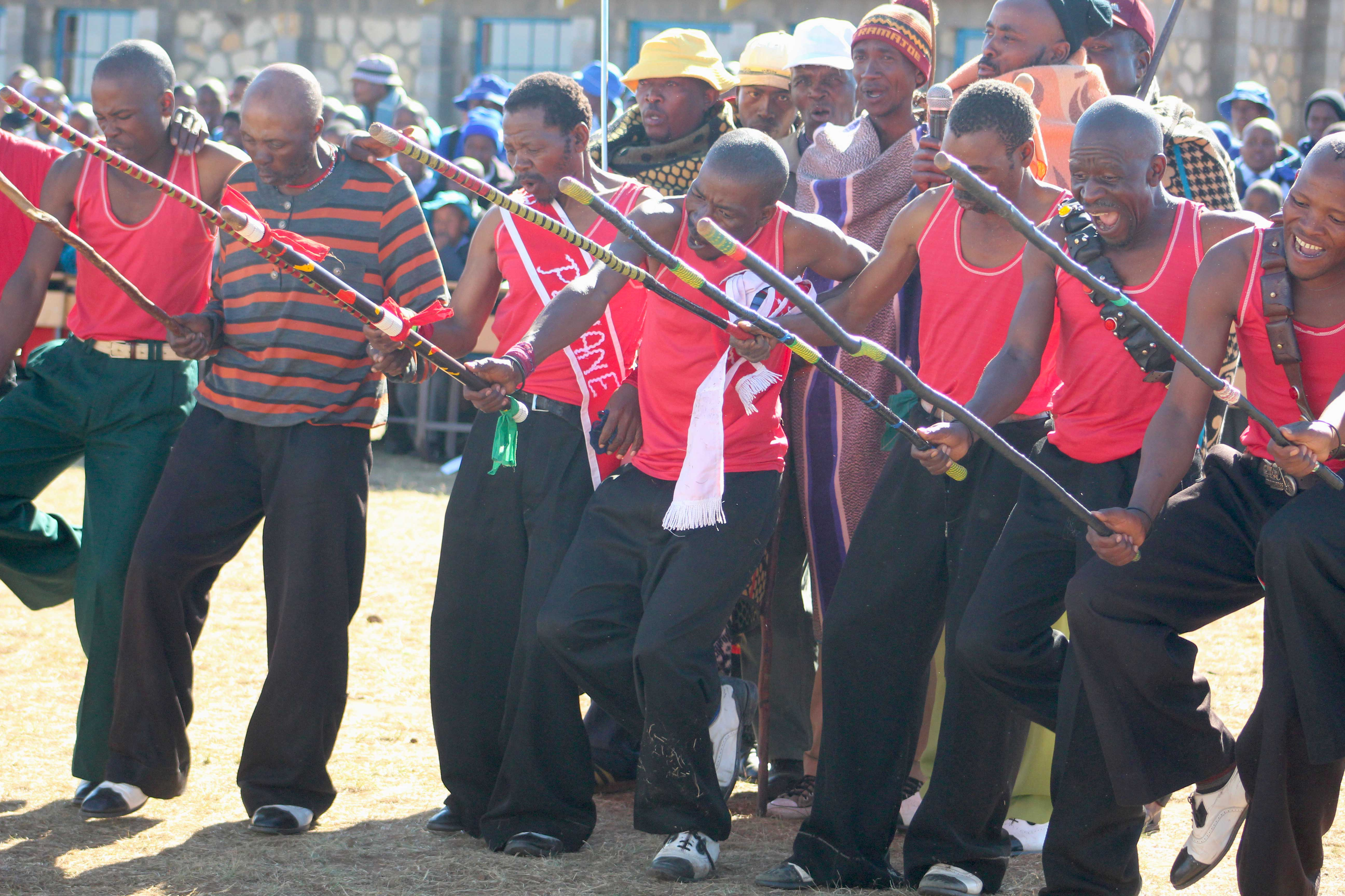 This is an image with the theme "Play" from: Lesotho